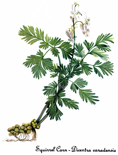 Watercolor painting of Dicentra canadensis, by Mary Vaux Walcott.